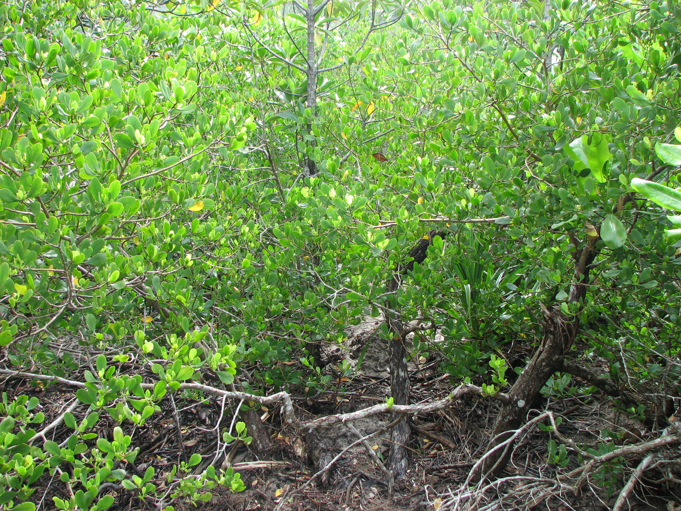 Lumnitzera racemosa at Urauchi, Iriomote is. Okinawa, Japan.